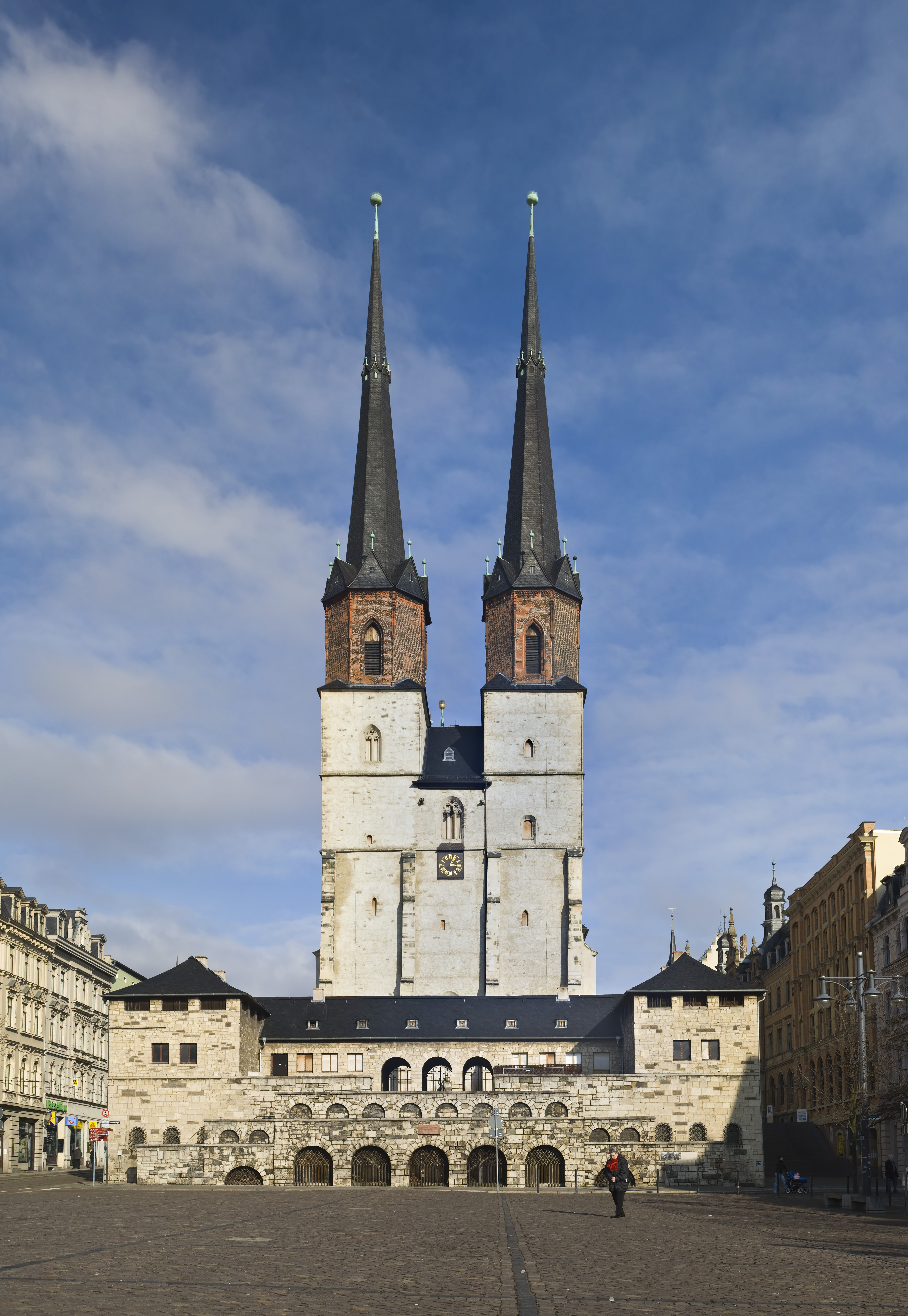 Marienkirche in Halle Saale, seen from West.